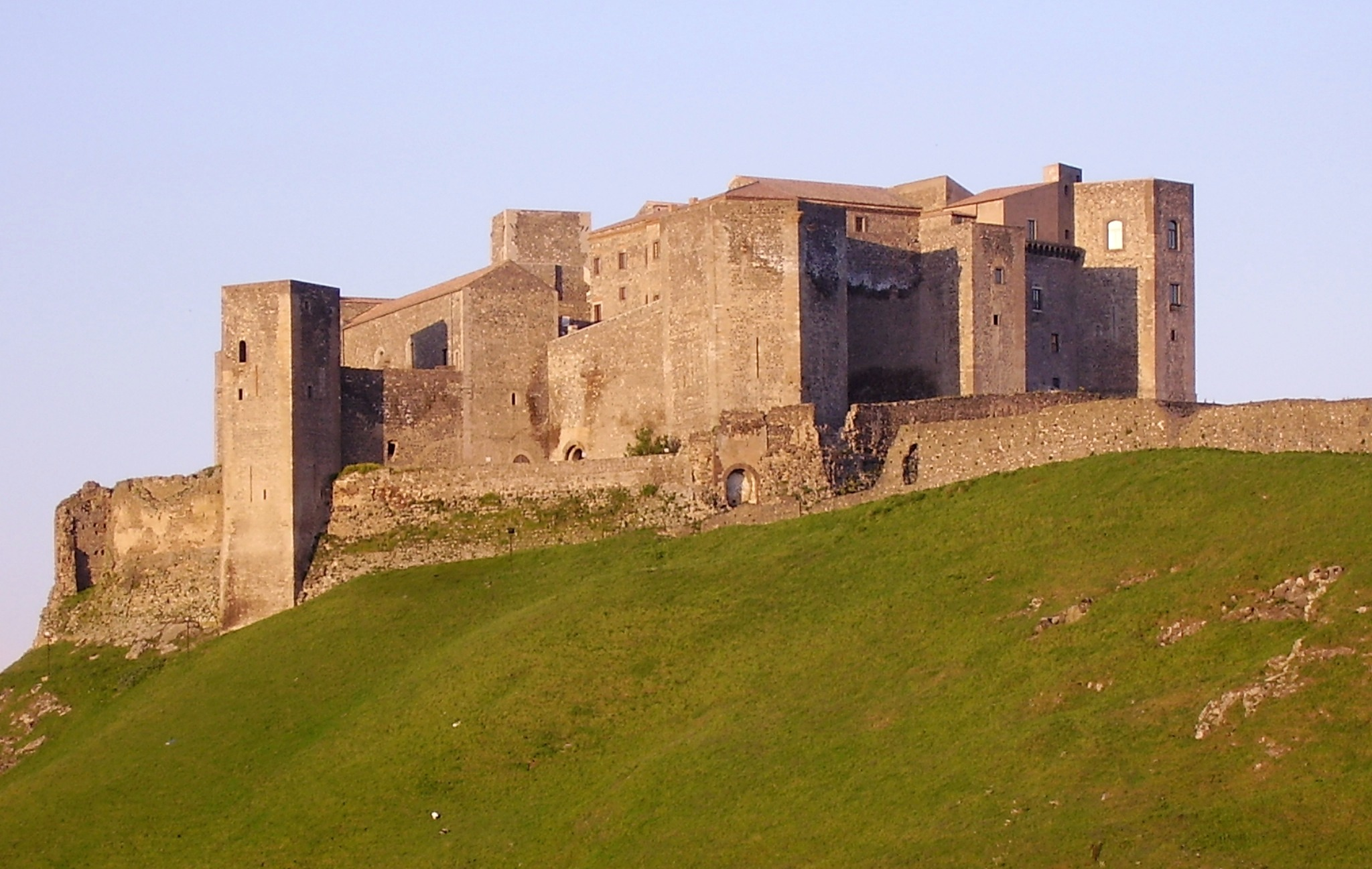 Taken by Michele Perillo (myself) the 24 april 2006.